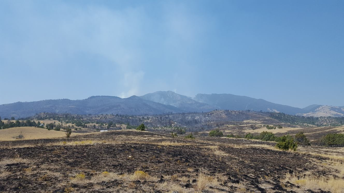 Conrow Fire from Beaverhead-Deerlodge National Forest